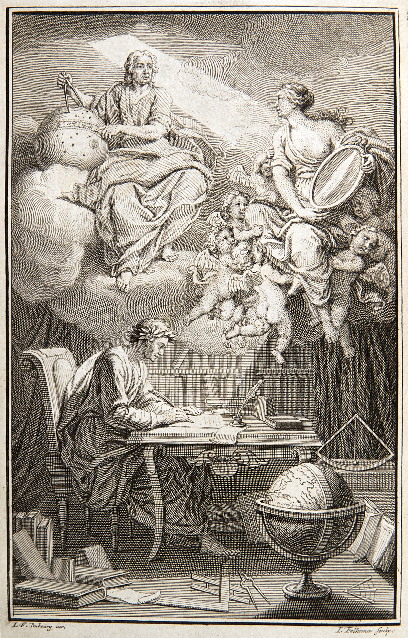 In the frontispiece to Voltaire's interpretation of Isaac Newton's work, Elémens de la philosophie de Newton (1738), the philosophe sits translating the inspired work of Newton. Voltaire's manuscript is illuminated by seemingly divine light coming from Newton himself, reflected down to Voltaire by a muse, representing Voltaire's lover Émilie du Châtelet—who actually translated Newton and collaborated with Voltaire to make sense of Newton's work.